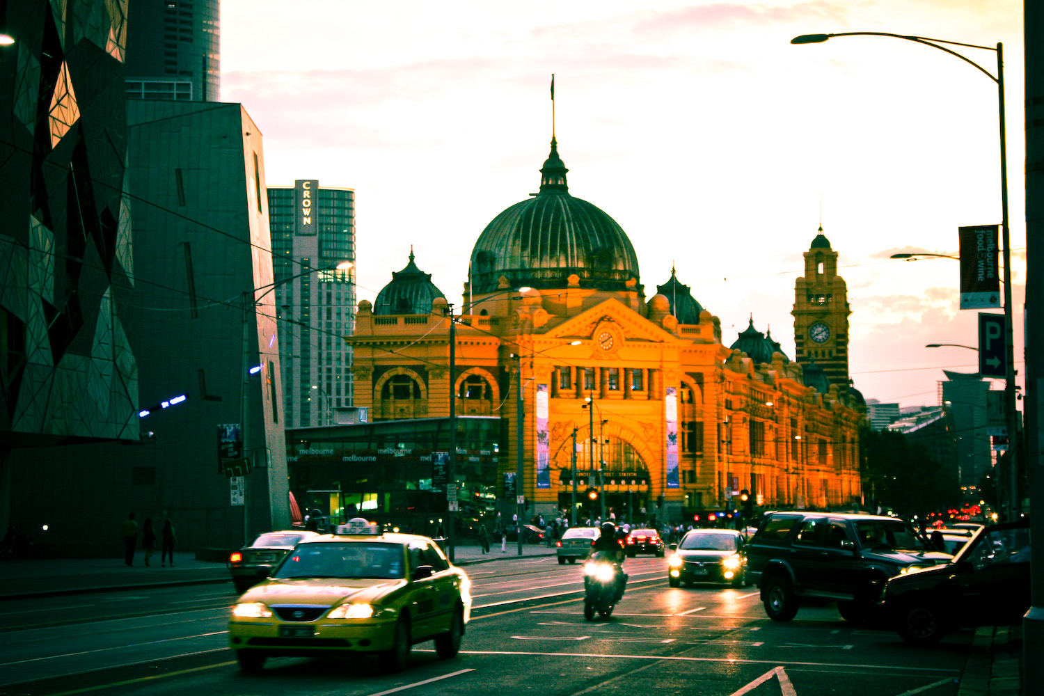 Flinders Street, Melbourne